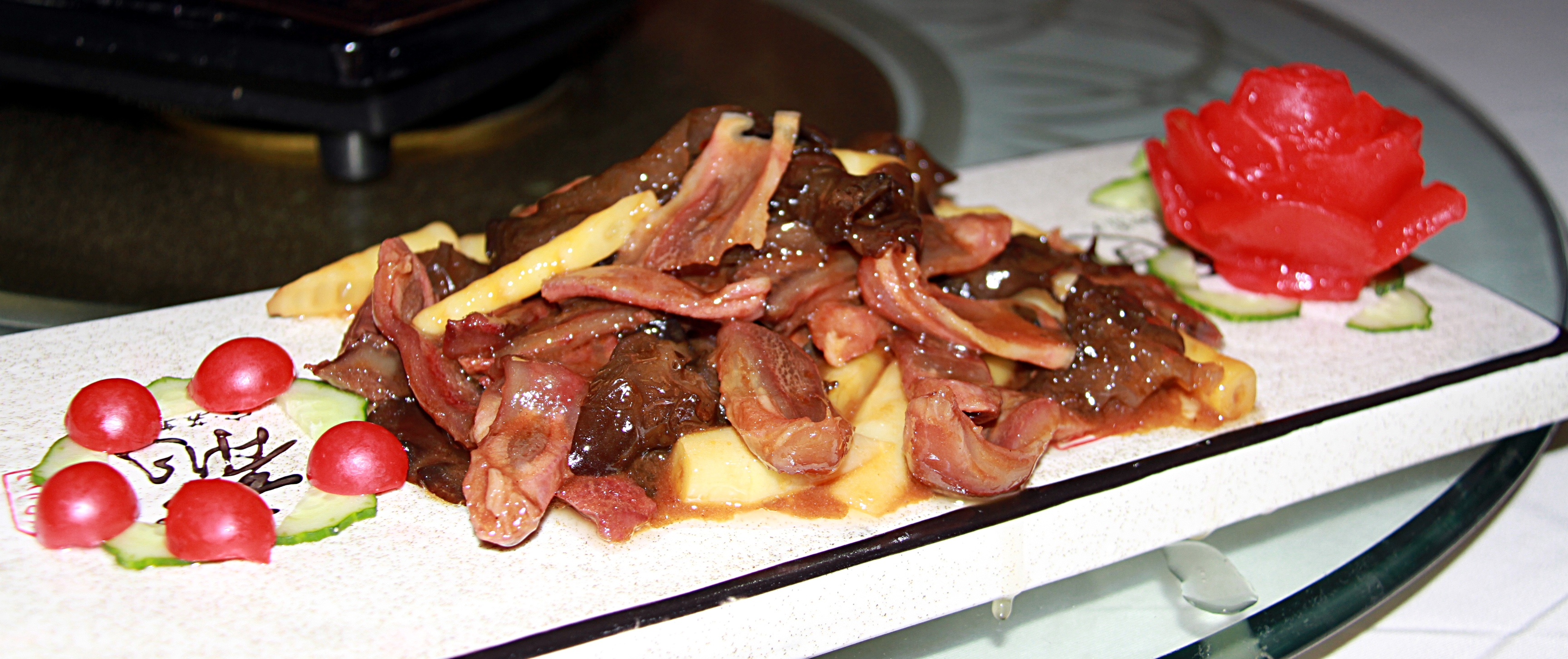 Photograph of a donkey penis dish served in the Guo Li Zhuang restaurant in Dongcheng District, Beijing.